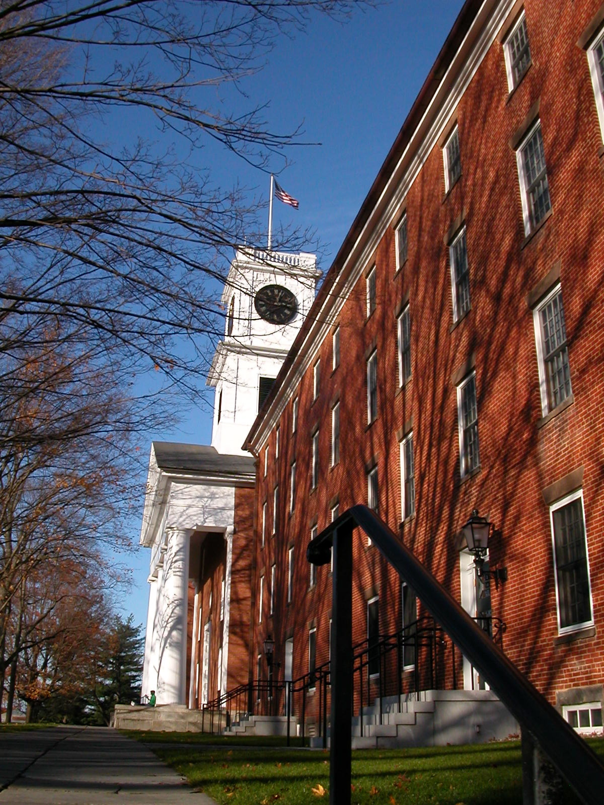 A photograph of College Row at Amherst College. College Row consists of the four student dormitories Williston, South, North, and Appleton Halls, and Johnson Chapel at center.